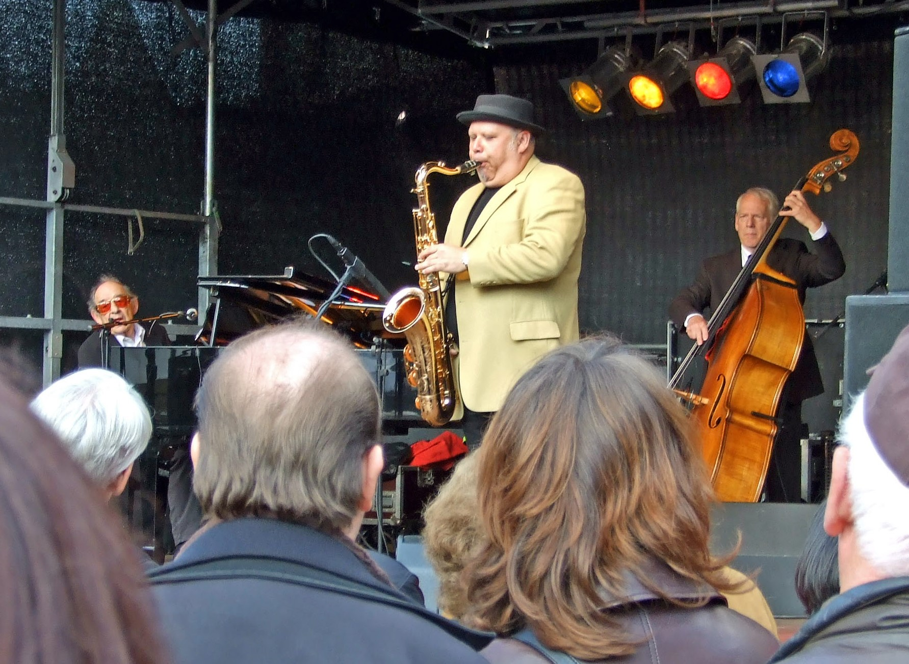 Paul Kuhn, Tony Lakatos and Gary Todd at Roemerberg in Frankfurt am Main